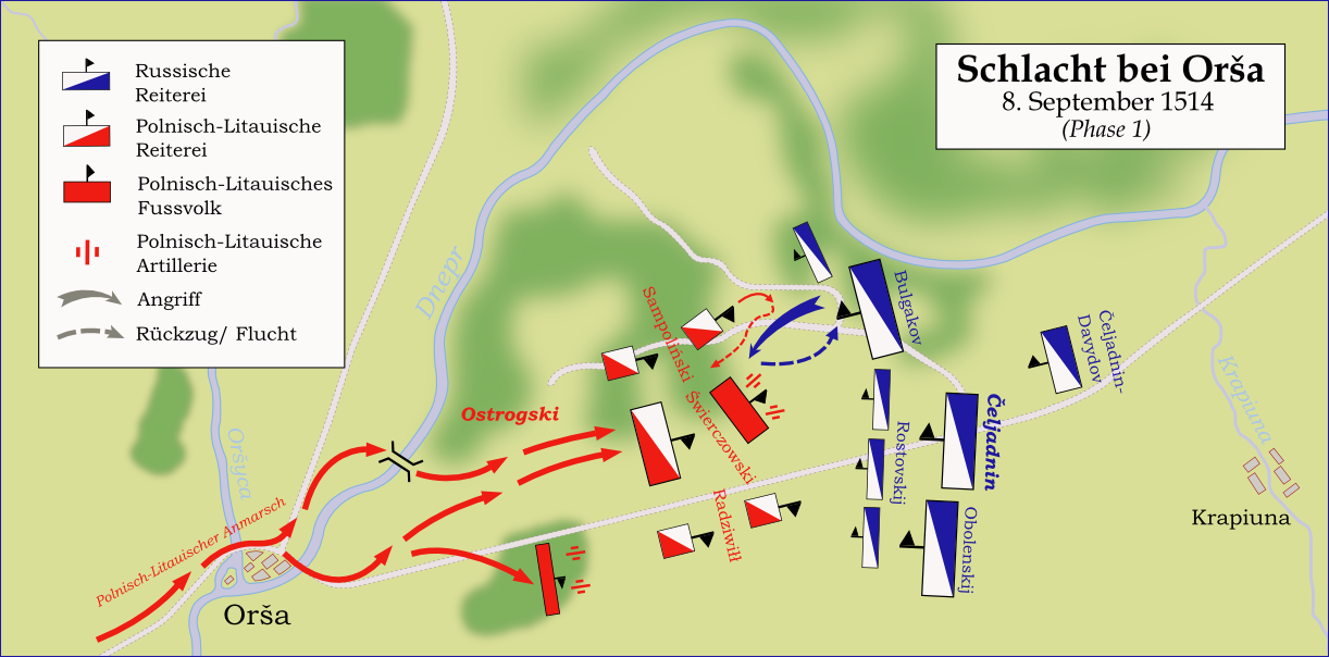 German Map showing the Battle of Orsha 1514 (Part 1) between the forces of the Grand Duchy of Lithuania and Kingdom of Poland and the army of Muscovy. The work was done by Inkscape and is based on a Museum-Table, photographed and uploaded here, but modified to seperate the conduct of the battle into three parts.